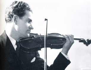 Arthur Leblanc (1906-1985), acadian violonist.